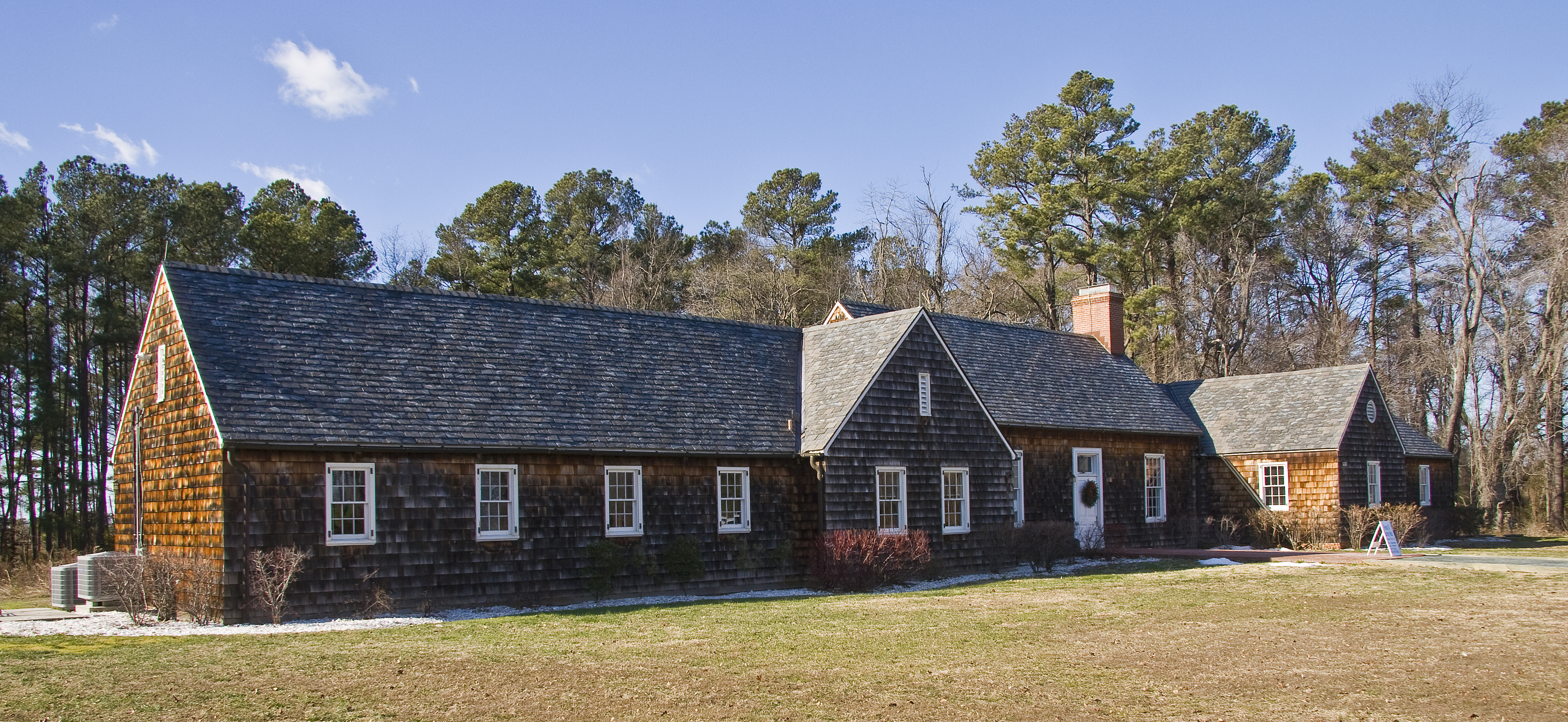 The lodge at Eastern Neck National Wildlife Refuge, Rock Hall, Maryland, USA